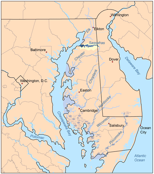 This is a map of the rivers of the Eastern Shore of Maryland with the Sassafras River and its watershed highlighted. I made it using USGS data.